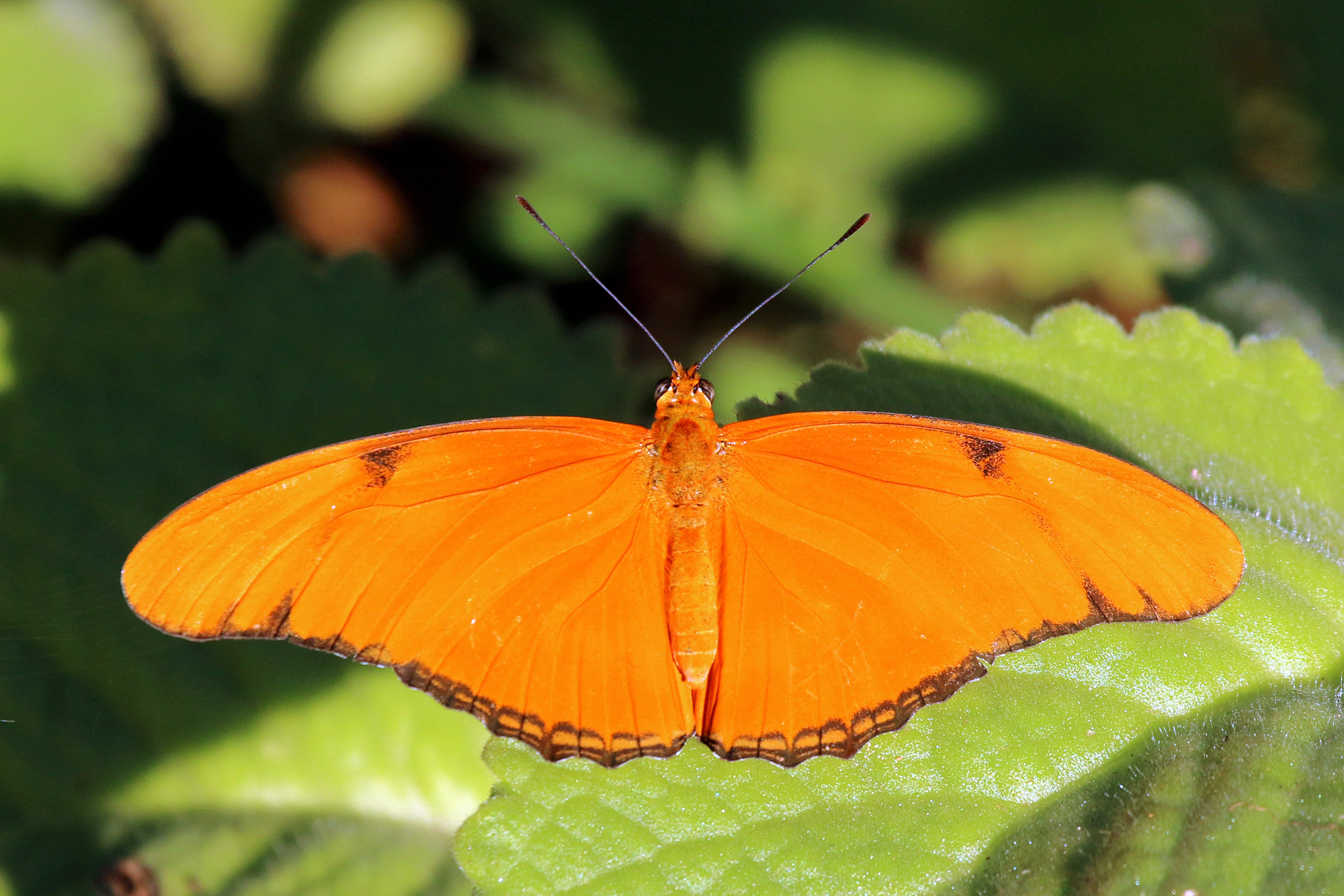 Julia butterfly (Dryas iulia delila) female in Jamaica